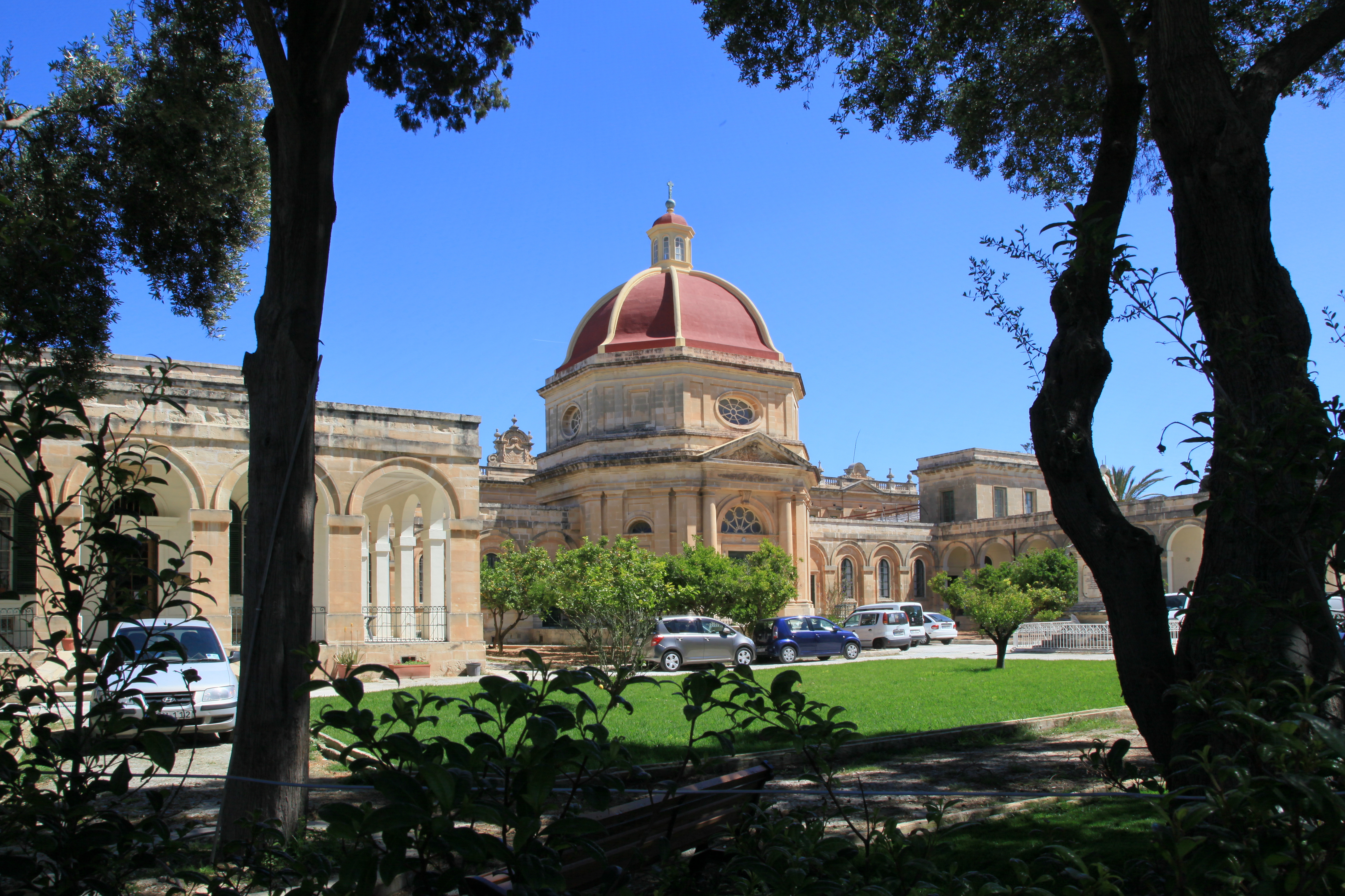 St. Vincent Chapel and Vincenzo Bugeja Conservatory at Triq il-Kbira San Ġużepp in Santa Venera, Malta